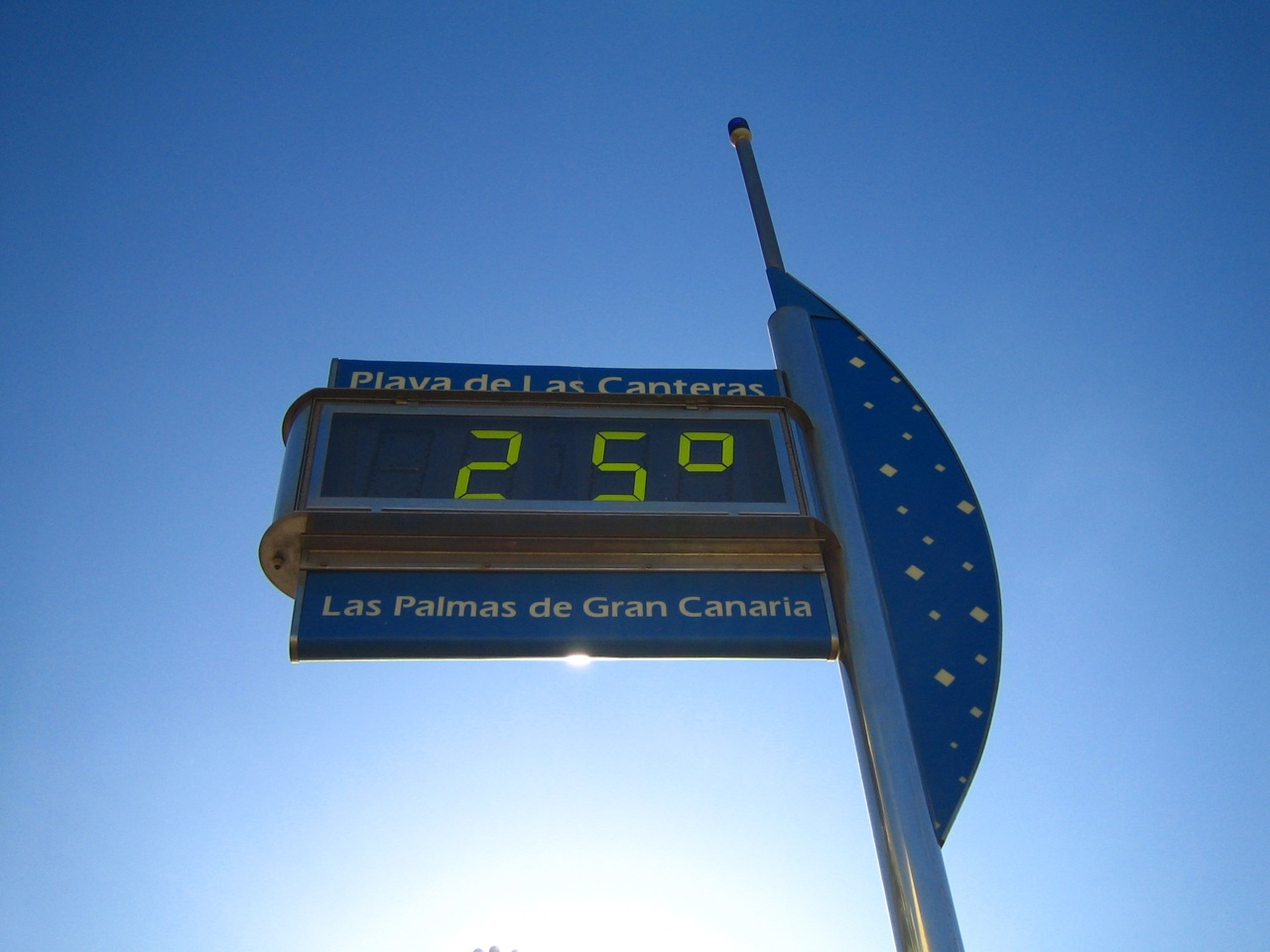 Beach of Las Canteras. December 24, 2006 - 25 degrees. Las Palmas de Gran Canaria.